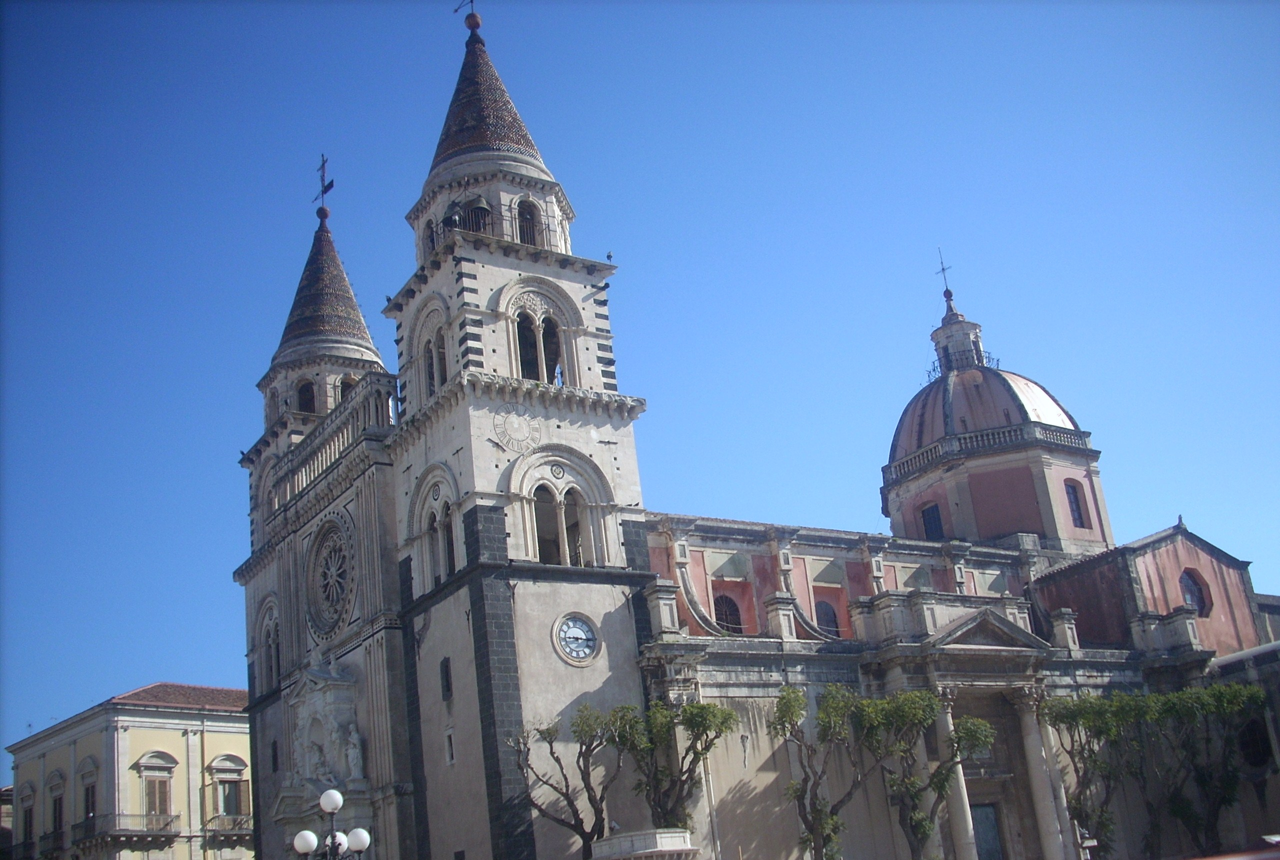 Baroque Cathedral in Acireale, Sicily